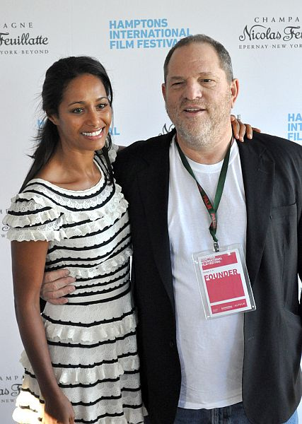 Journalist Rula Jebreal and Miramax Films Co-founder 18th Annual Hamptons International Film Festival Chairman's Reception on October 9, 2010 at the home of Stuart Suna in East Hampton, New York. (Photo © Nick Stepowyj)